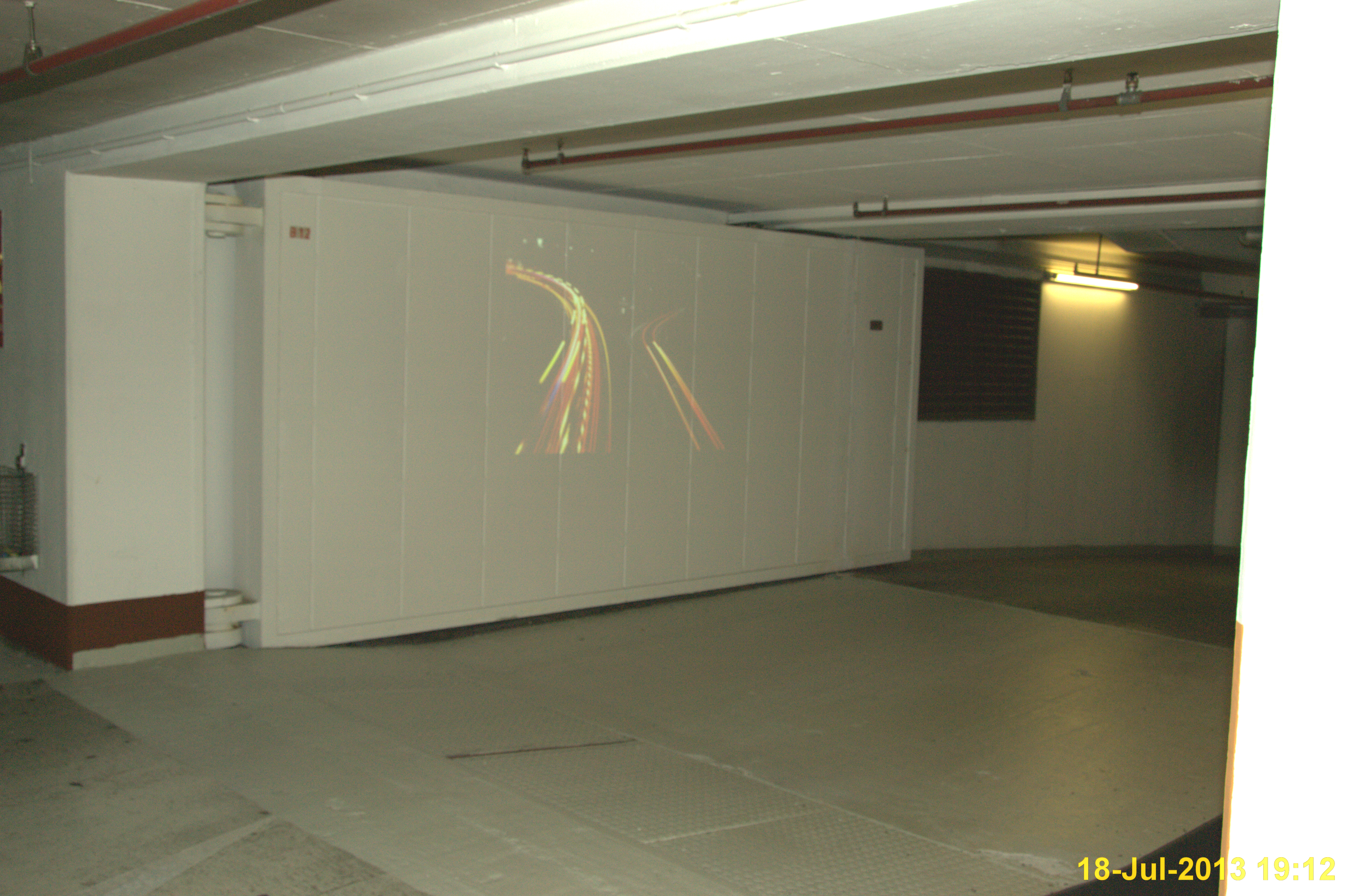 The mother of all fire doors: In a parking garage of a German hotel.